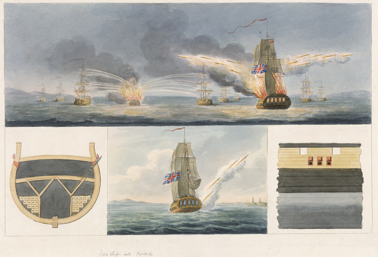 Fireships firing rockets and details of storage and launch (Misc 34) Plate to The Details of the Rocket System, back and watercolour pen & ink by Colonel Congreve, 1814.